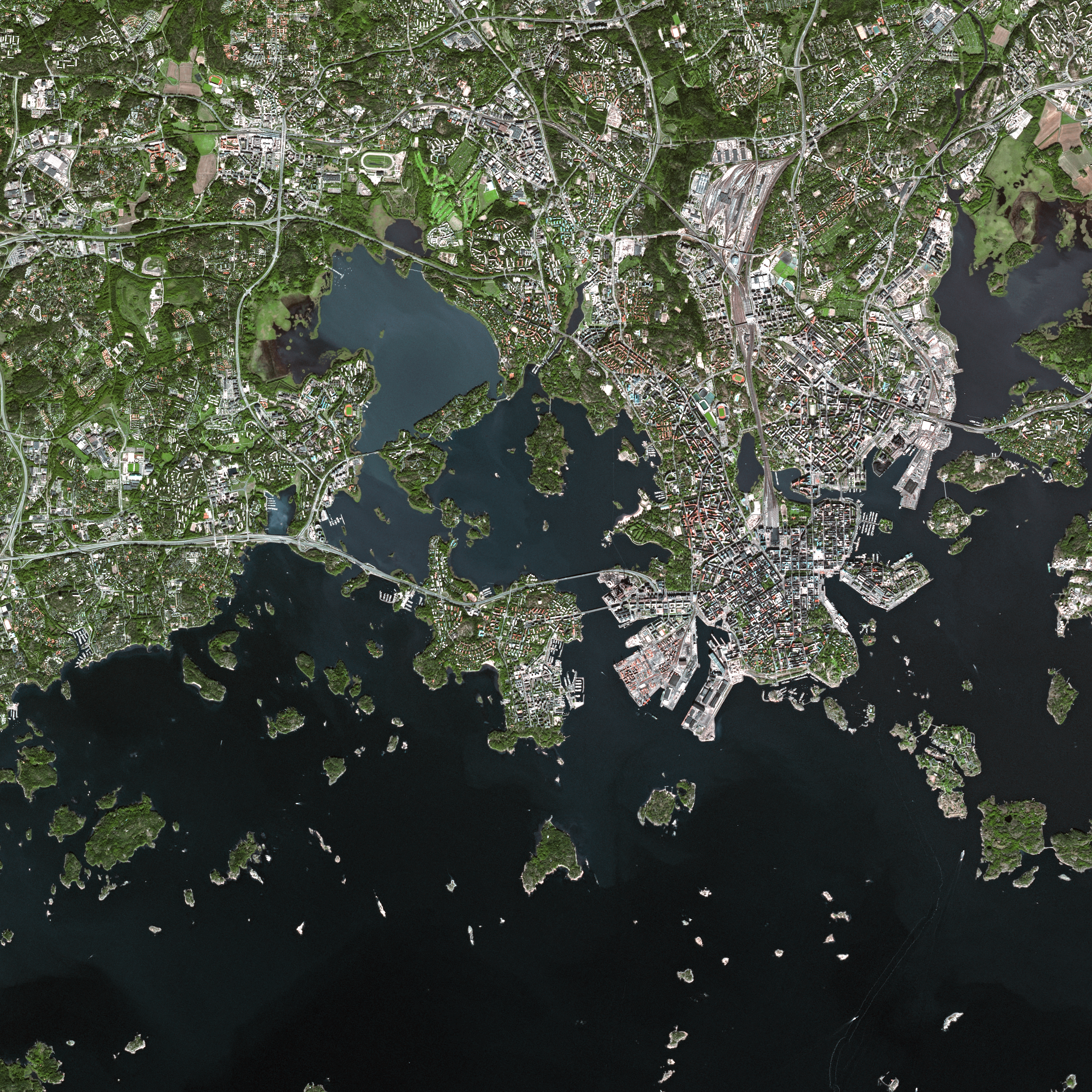 Satellite view of Helsinki and adjacent Baltic Coast — in Finland. by SPOT Satellite.